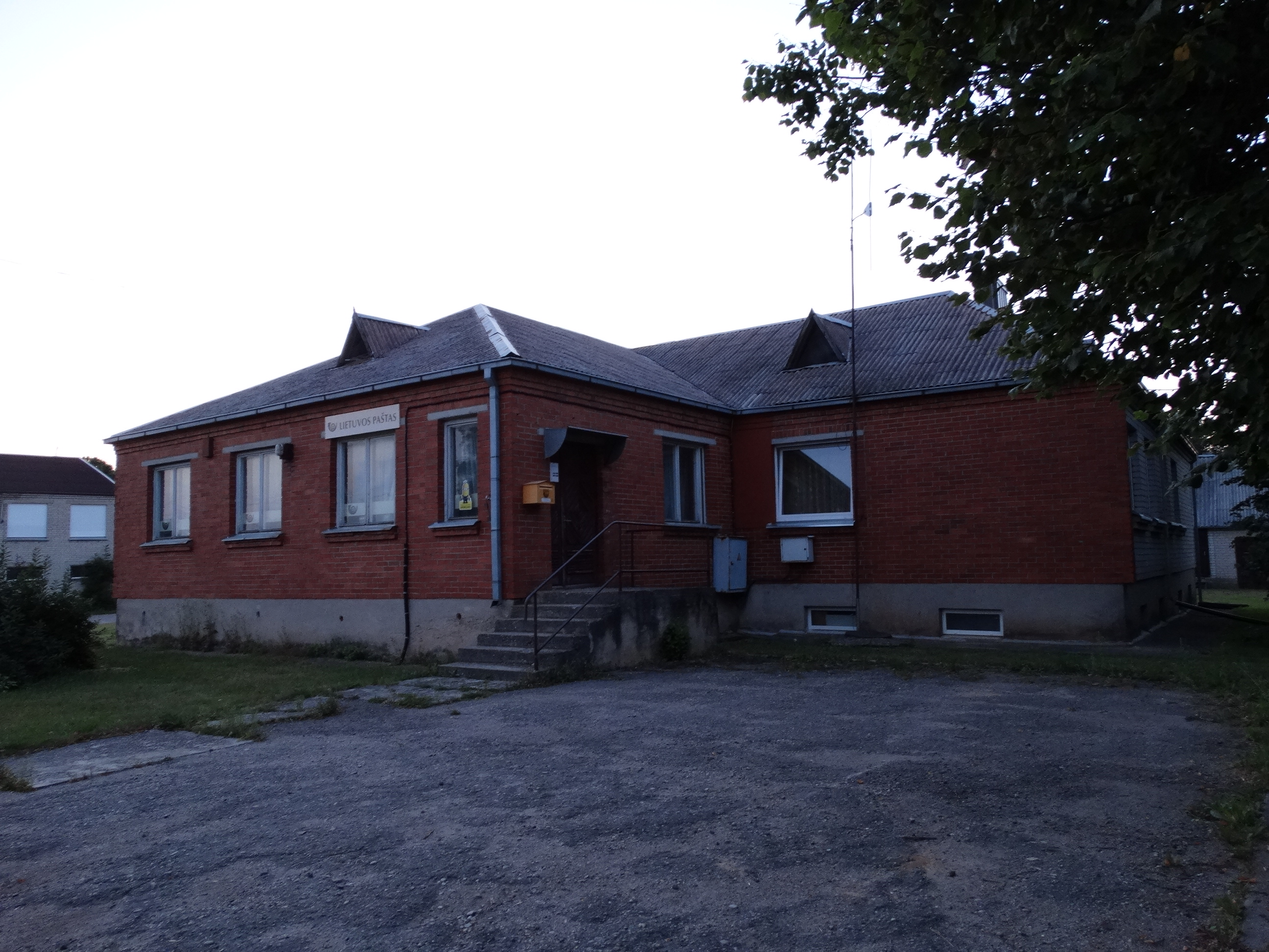 Post office, Liaušiai, Ukmergė district, Lithuania